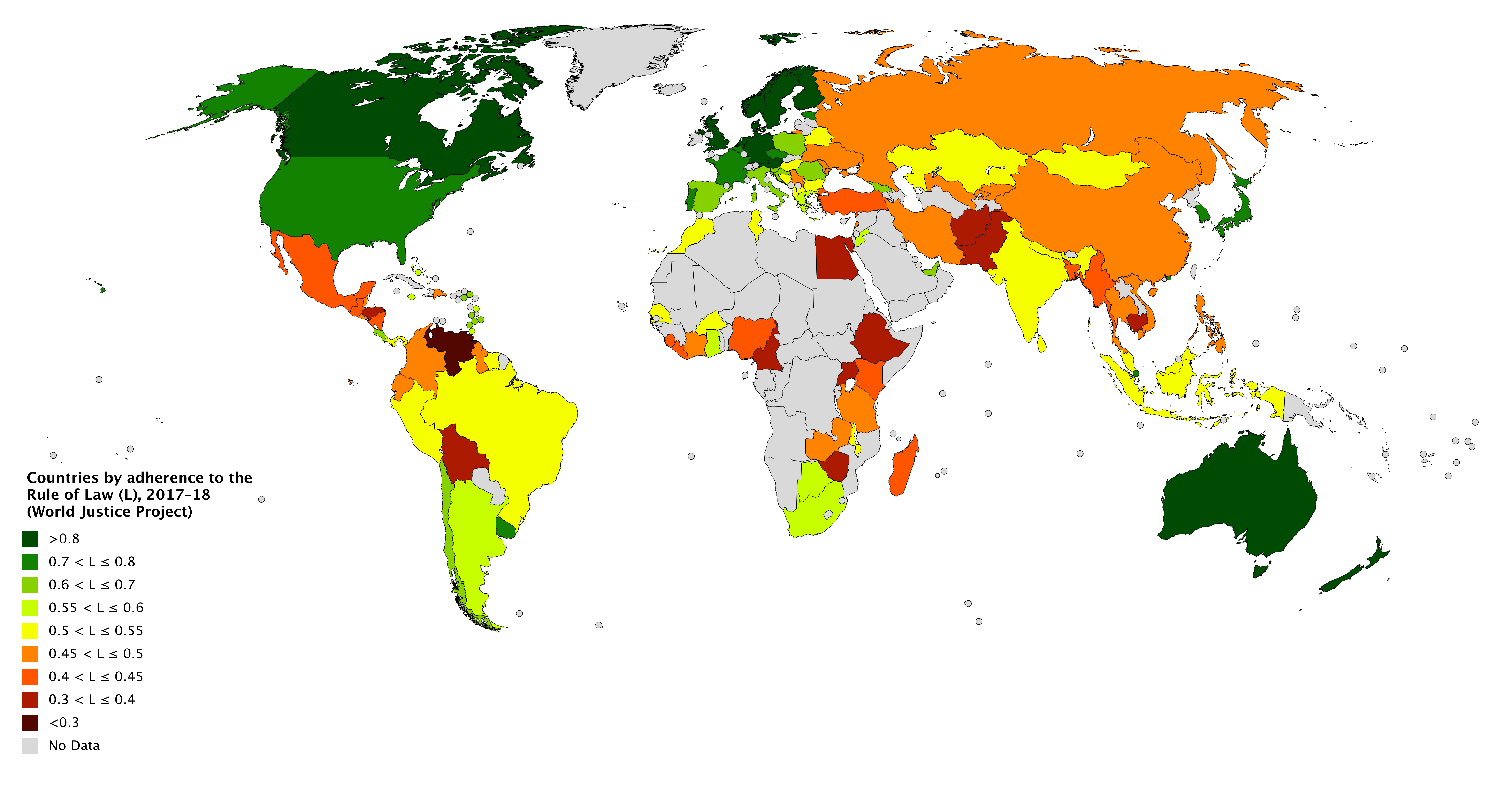 A colour-coded map showing how well citizens of each of the 113 countries ranked by the World Justice Project adhere to the rule of law. Based on data from the 2017–18 report by the World Justice Project.